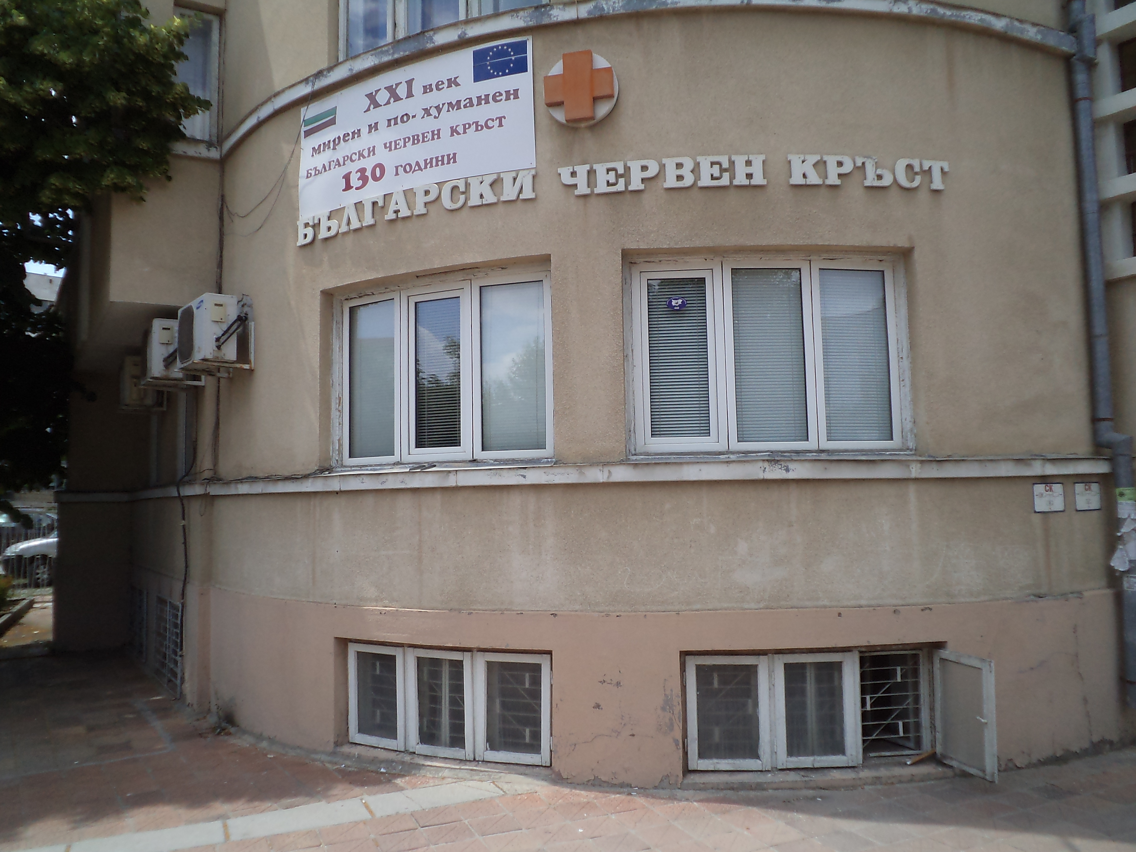 The building of the Bulgarian Red Cross in Dobrich